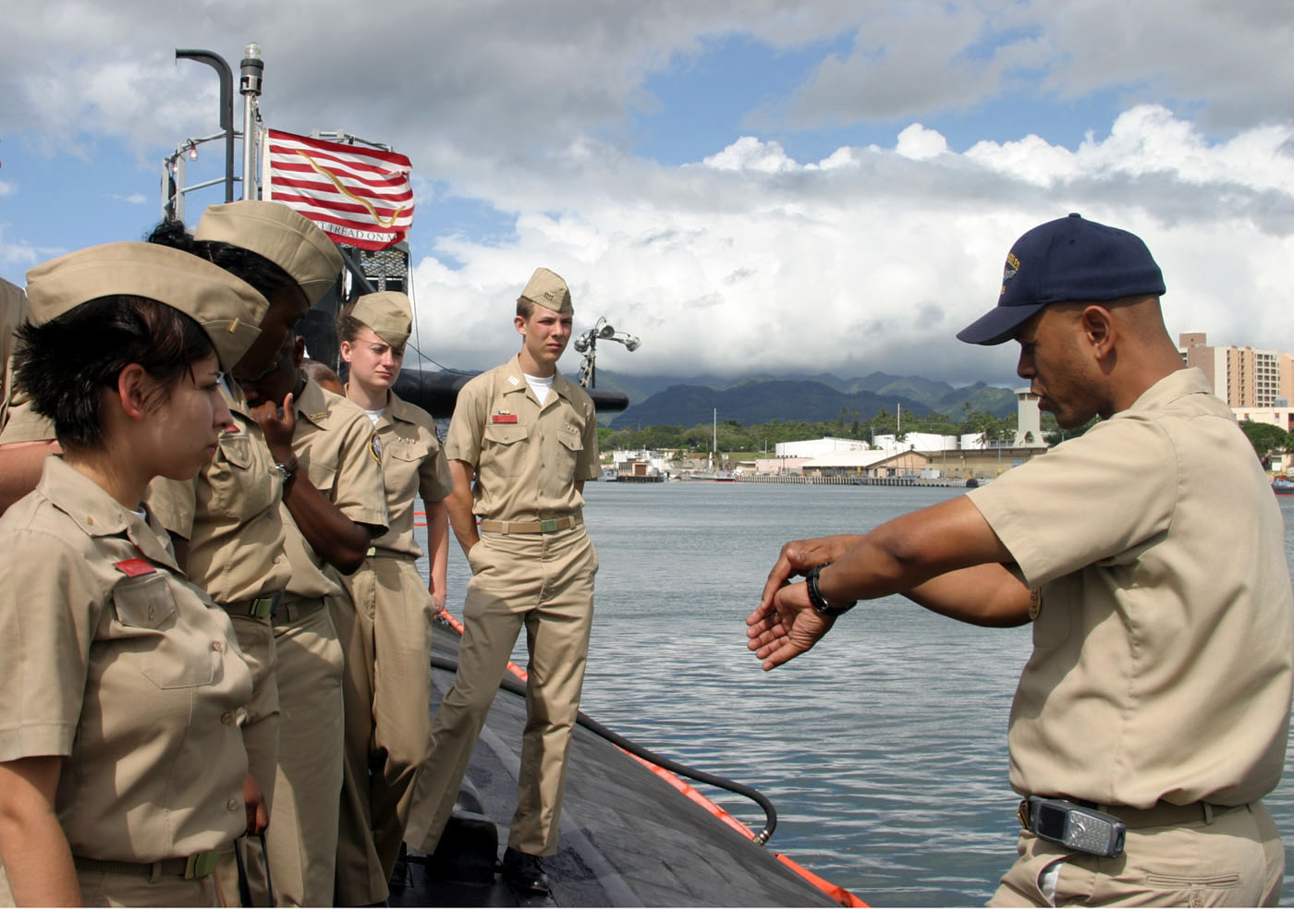 Naval Station Pearl Harbor, Hawaii (Apr. 9, 2004) - Chief of the Boat (COB), Master Chief Sonar Technician Mark Lemon, explains to the Druid Hills Naval Junior Reserve Officers Training Corps (NJROTC) how a submarine submerges. The NJROTC group toured the attack submarine USS Los Angeles (SSN 688) while she was in port at Pearl Harbor, Hawaii. U.S. Navy photo by Journalist 3rd Class Corwin Colbert. (RELEASED)